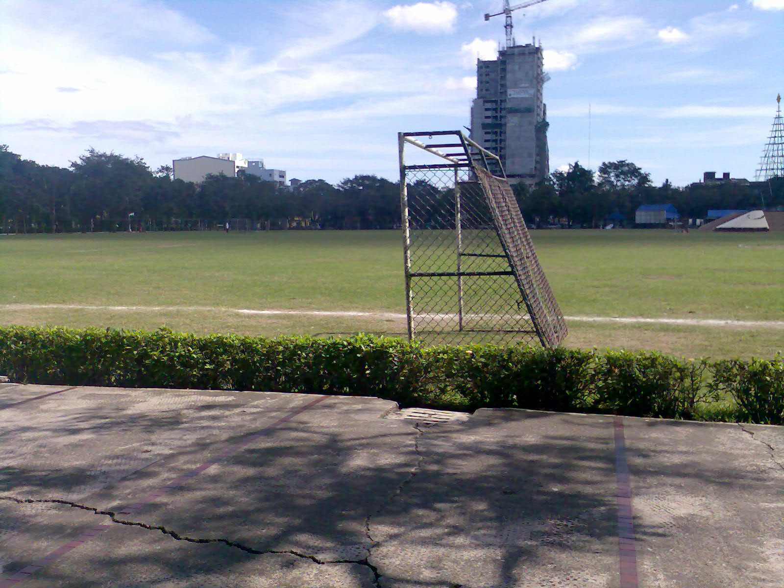 ust parade and grounds